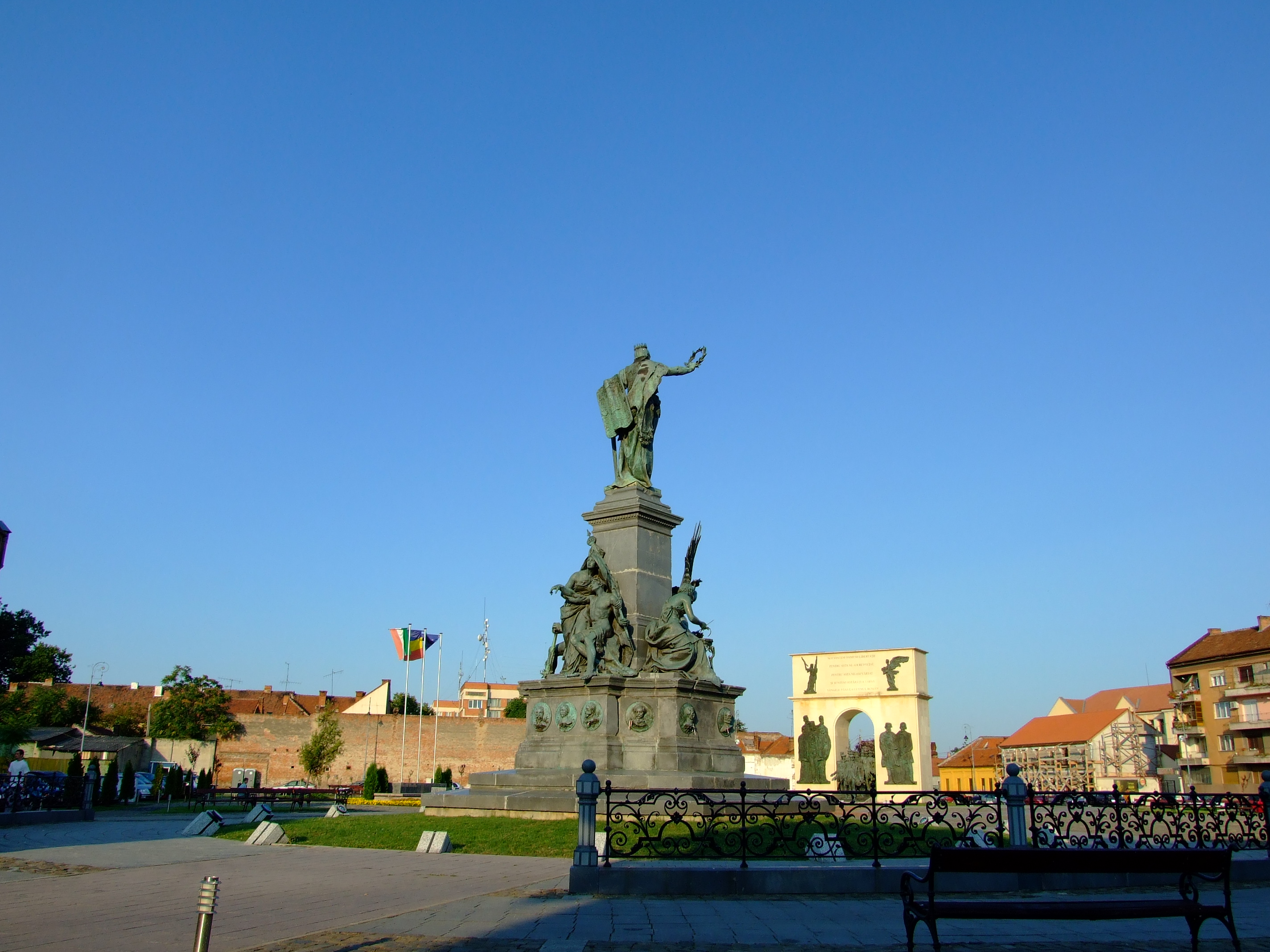 Monument in Arad, Romania 02